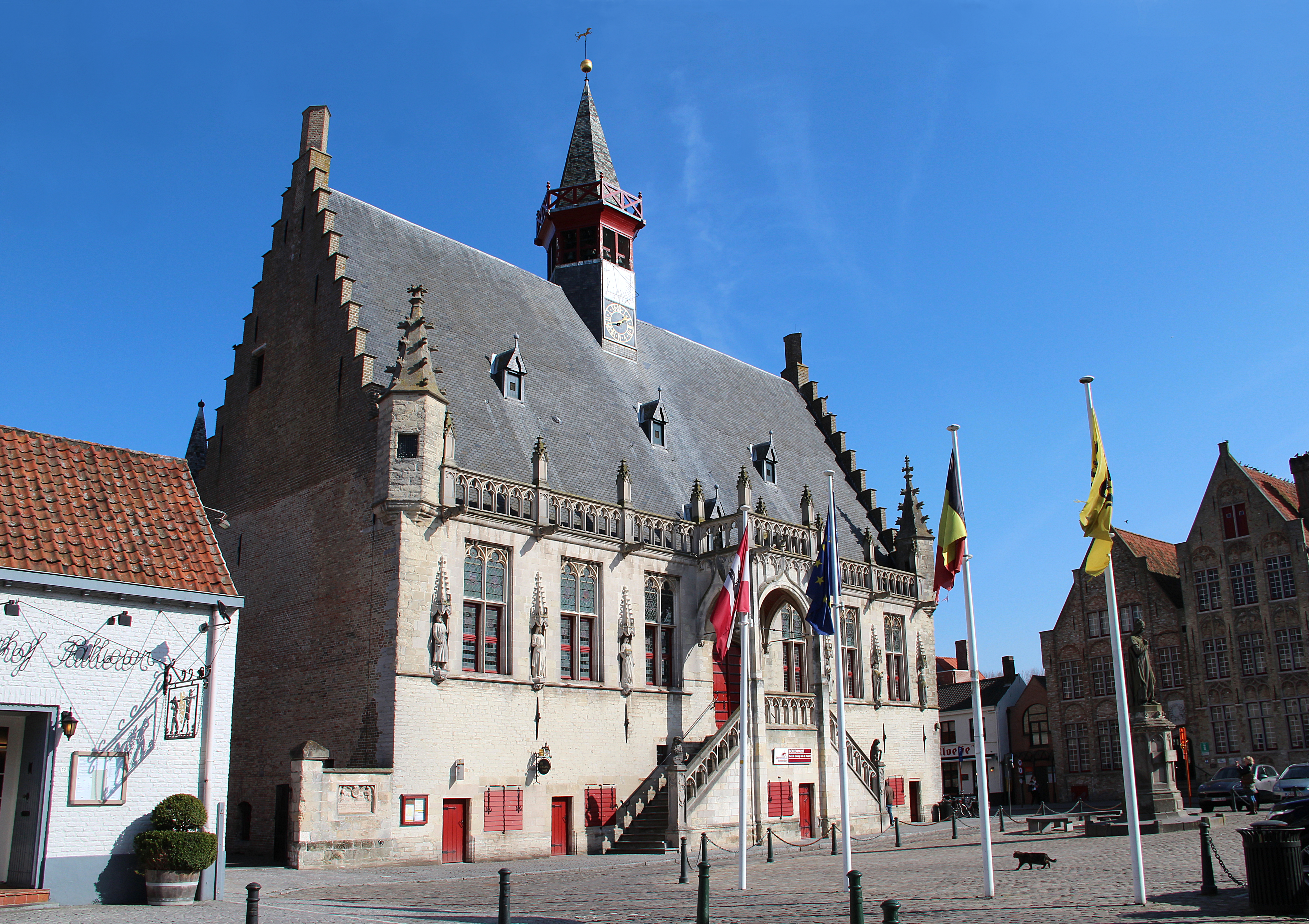 Damme (Belgium), the City hall (XIVth century)